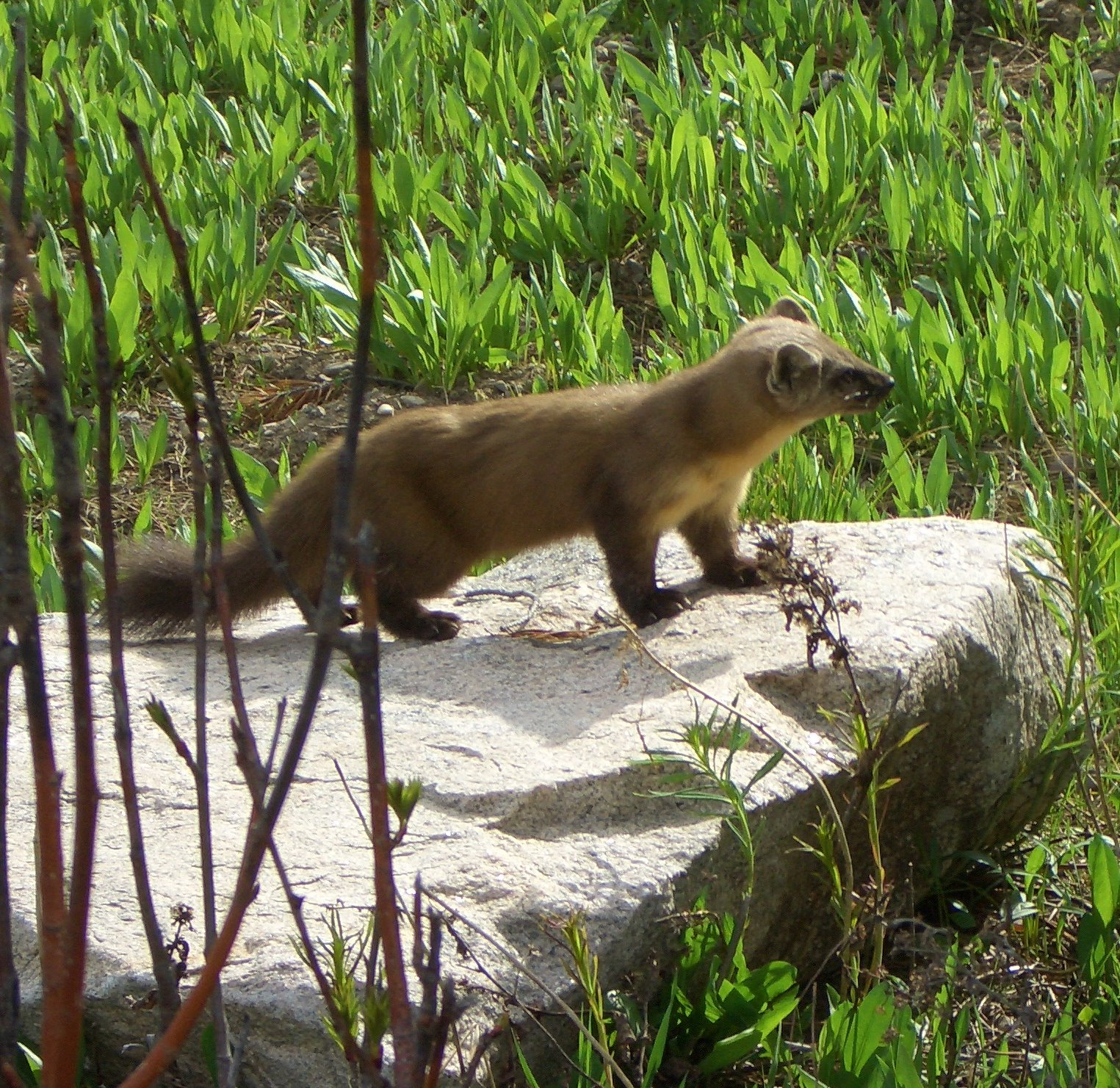 American Marten (Martes americana) as seen in Teton National Park.